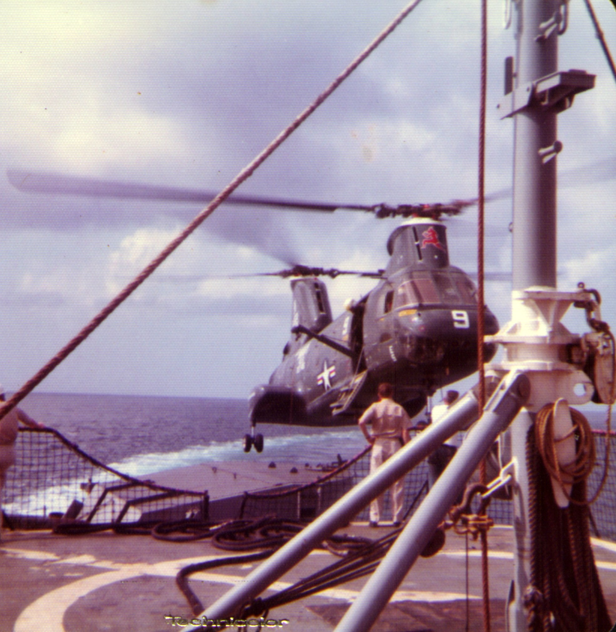 A U.S. Navy Boeing-Vertol CH-46 Sea Knight over the fantail of the destroyer USS Hanson (DD-832) in the Gulf of Tonkin, in 1972.